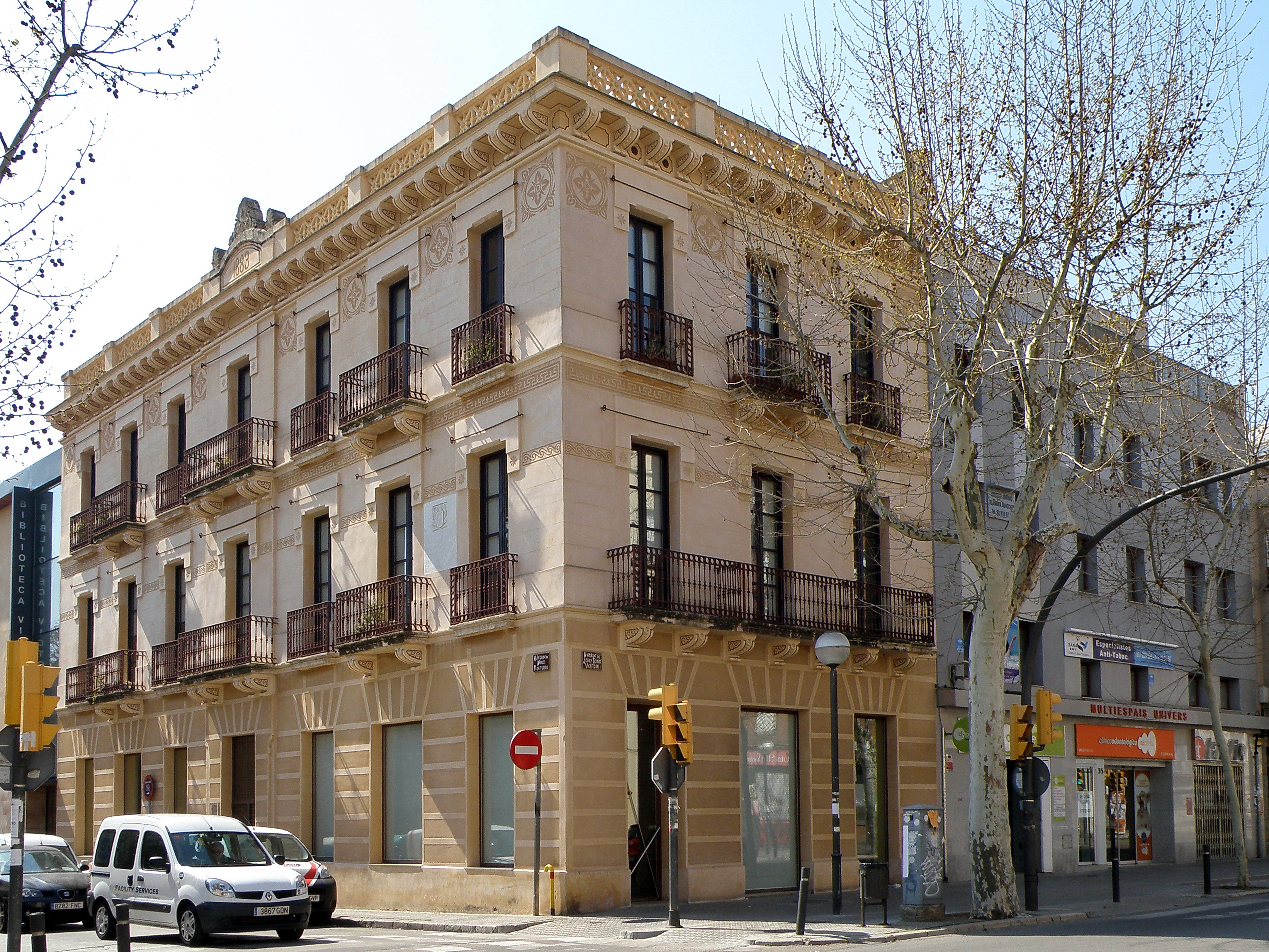 Marquès de Castrofuerte house in Vilanova i la Geltrú